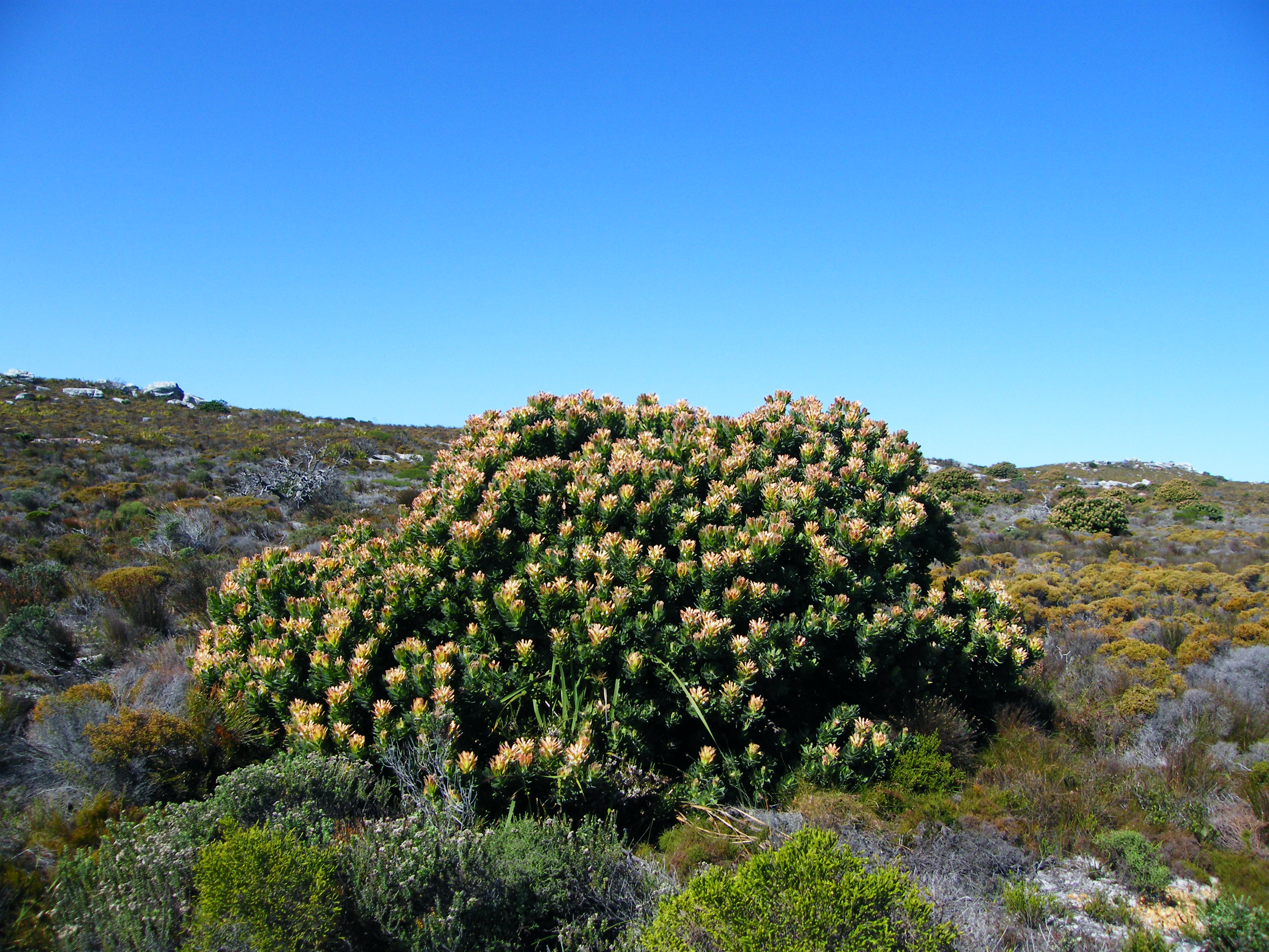 Tree Pagoda